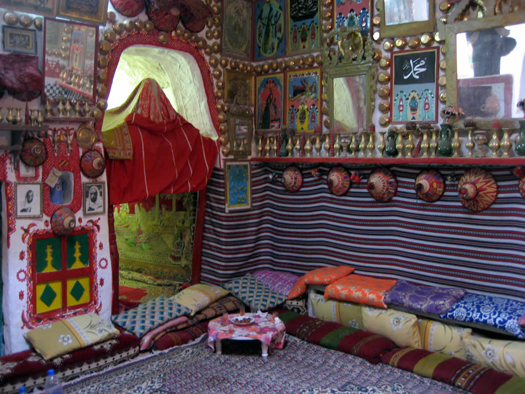 A traditional home in the old city of Ghadames.